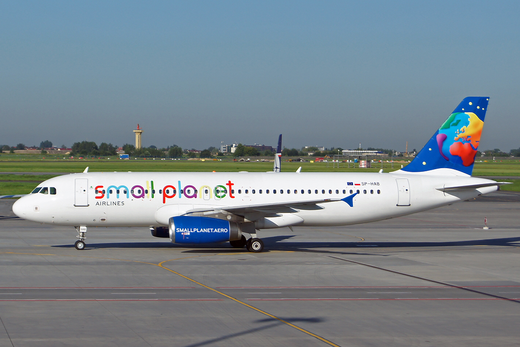 Airbus A320 Small Planet Airlines (SP-HAB) at Warsaw Friederic Chopin Airport.